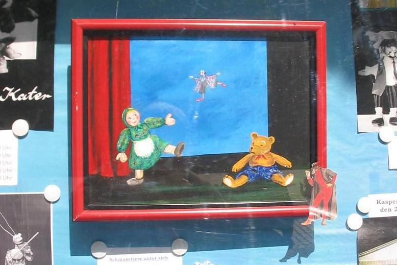 Winterfeldtplatz (place) in Berlin-Schöneberg, Germany. Puppet theater „Hans Wurst Nachfahren“, presentation box.